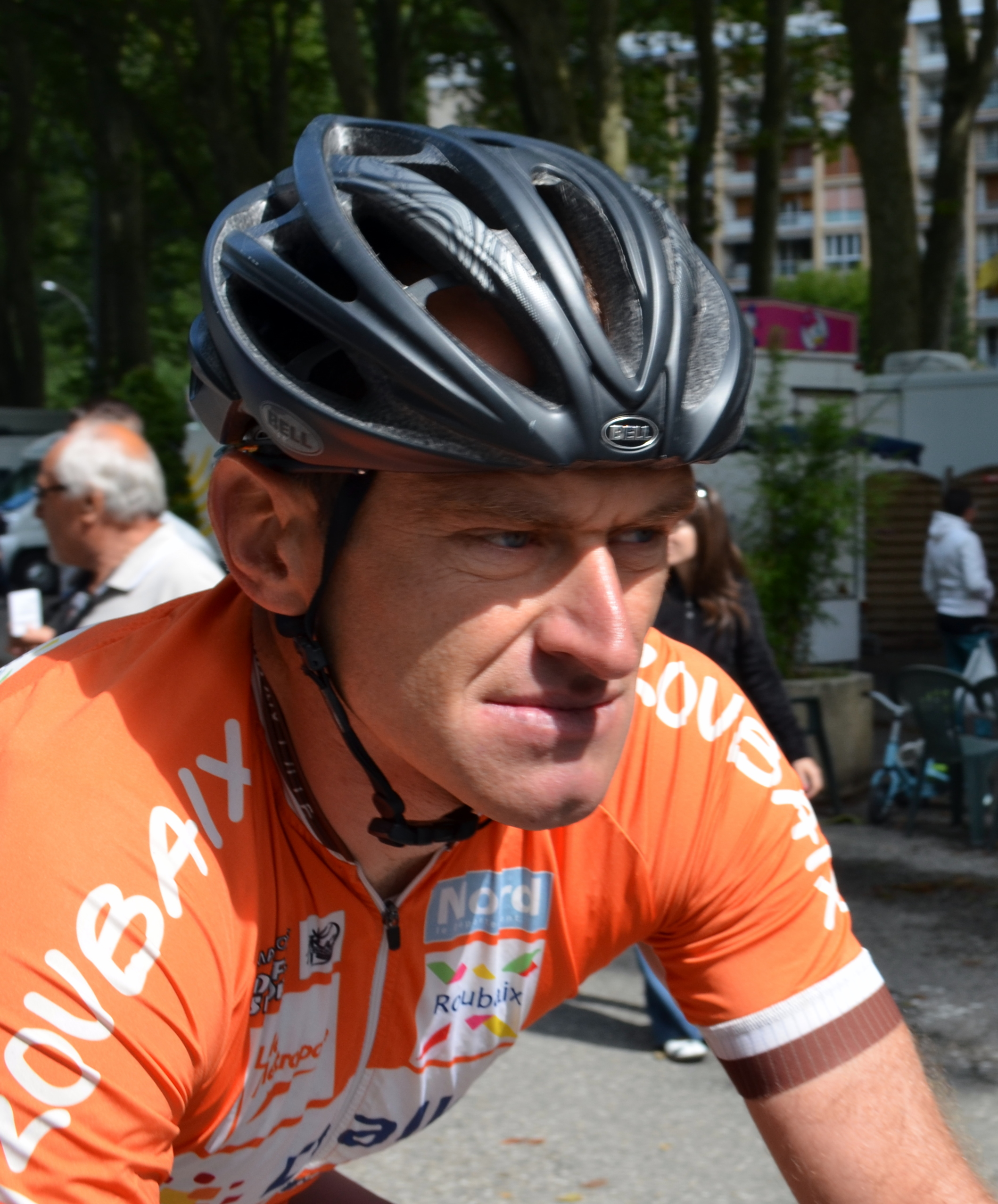 Tour de l'Ain 2014 - Stage 4 (start, Nantua). Object location46° 09′ 25.56″ N, 5° 36′ 12.24″ E Personality rights warningAlthough this work is freely licensed or in the public domain, the person(s) shown may have rights that legally restrict certain re-uses unless those depicted consent to such uses. In these cases, a model release or other evidence of consent could protect you from infringement claims.